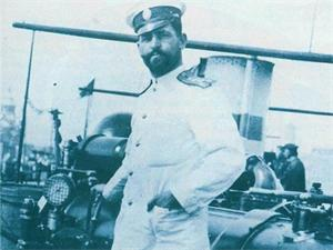 Portrait of Anton Prudkin, bulgarian, russian and soviet spy and terrorst